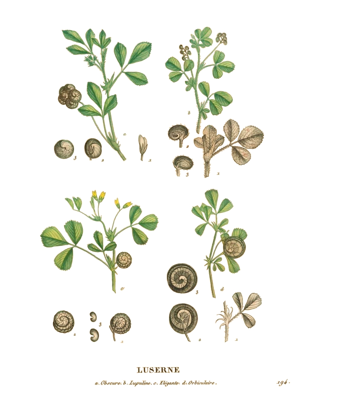 Illustrations of Medicago italica (top left), Medicago lupulina (top right), Medicago rugosa (bottom left), and Medicago orbicularis (bottom right).